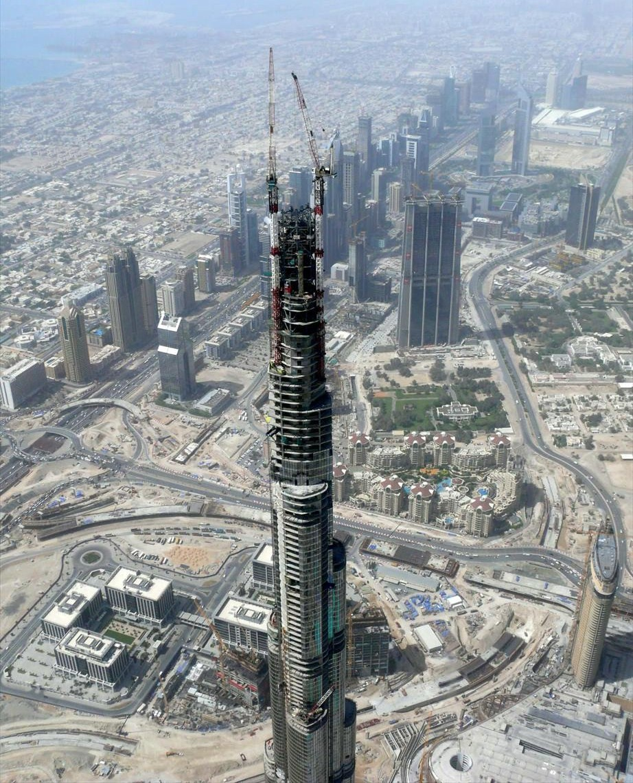 This is a photo showing the construction of the Burj Khalifa, located in Dubai, United Arab Emirates, on 8 May 2008. The skyline of Sheikh Zayed Road can be seen in the background. This photo was taken from a helicopter ride courtesy of Nakheel.